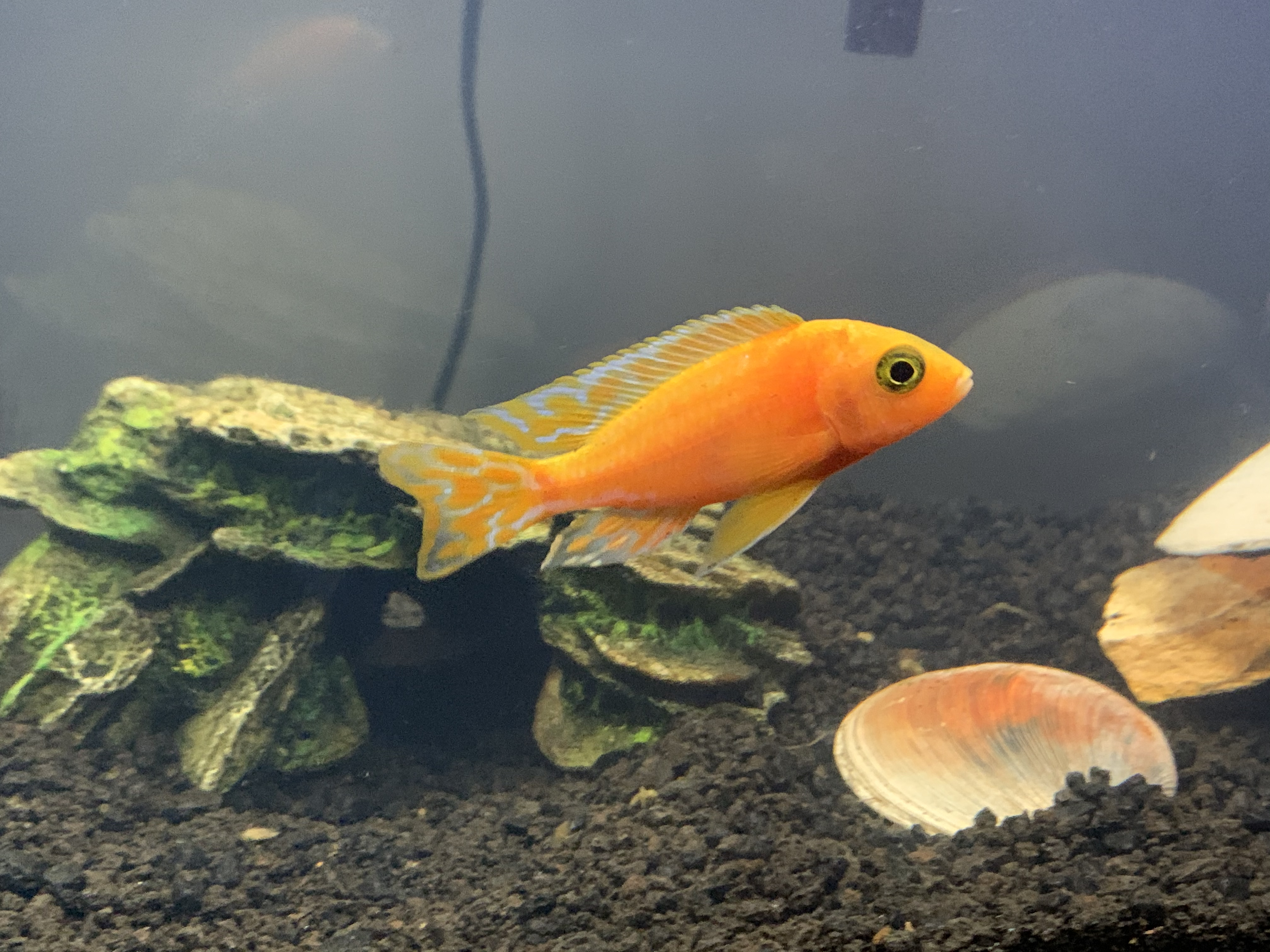 Adult female red zebra cichlid in an aquarium.